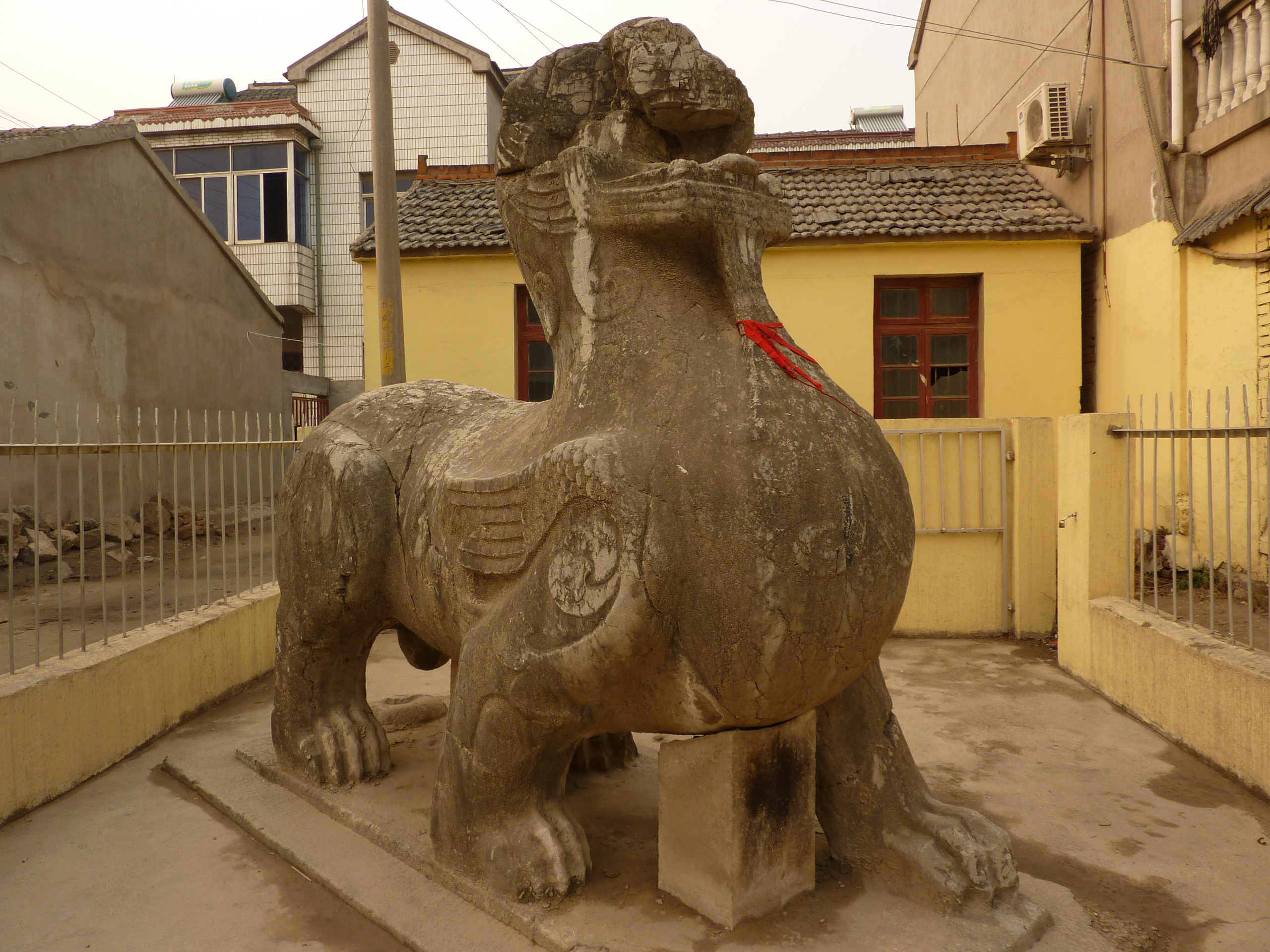 The Chuning Tomb, in the present day Qilin Town near Nanjing, is the tomb of Emperor Wu of Liu Song (363–422). All that remains there are two qilin statues, facing each other across a mostly residential street in the appropriately named Qilinpu ("Qilin capture") neighborhood of the Qilin Town.